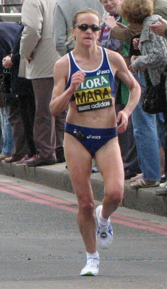 Mara Yamauchi at Mile 24 and a half of the 2009 London Marathon, along Mid Temple right by Temple Place. She finished second in a Personal Best of 2:23:12.